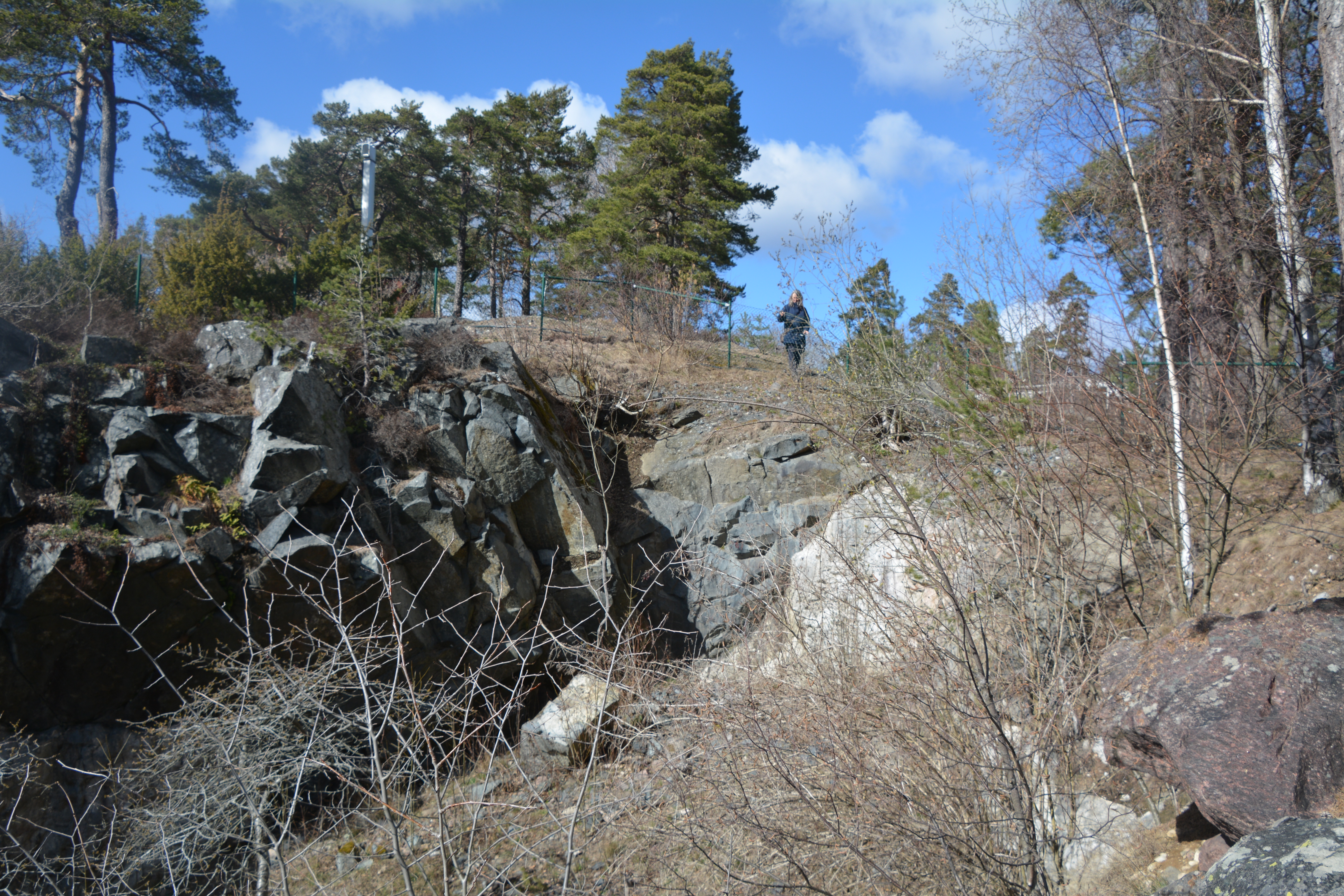 Ytterby mine, quarry